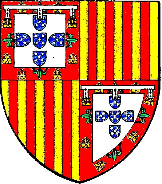 Coat of Arms of Jaime/James of Coimbra, Portuguese prince (3rd son of Infante Pedro, 1st Duke of Coimbra)